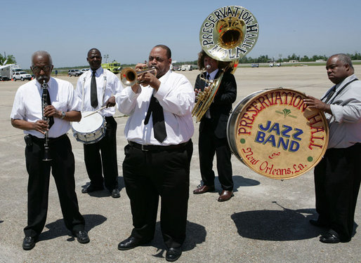 Members of the Preservation Hall Jazz Band are seen on the tarmac at Louis Armstrong New Orleans International Airport Monday, April 21, 2008, offering a musical welcome for North American leaders President George W. Bush, Mexico President Felipe Calderon and Canadian Prime Minister Stephen Harper at their arrivals to attend the 2008 North American Leaders’ Summit. White House photo by Chris Greenberg